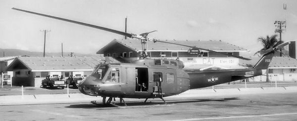 South Vietnamese Air Force UH-1 Huey helicopter at Phu Cat Air Base (Vietnam War).